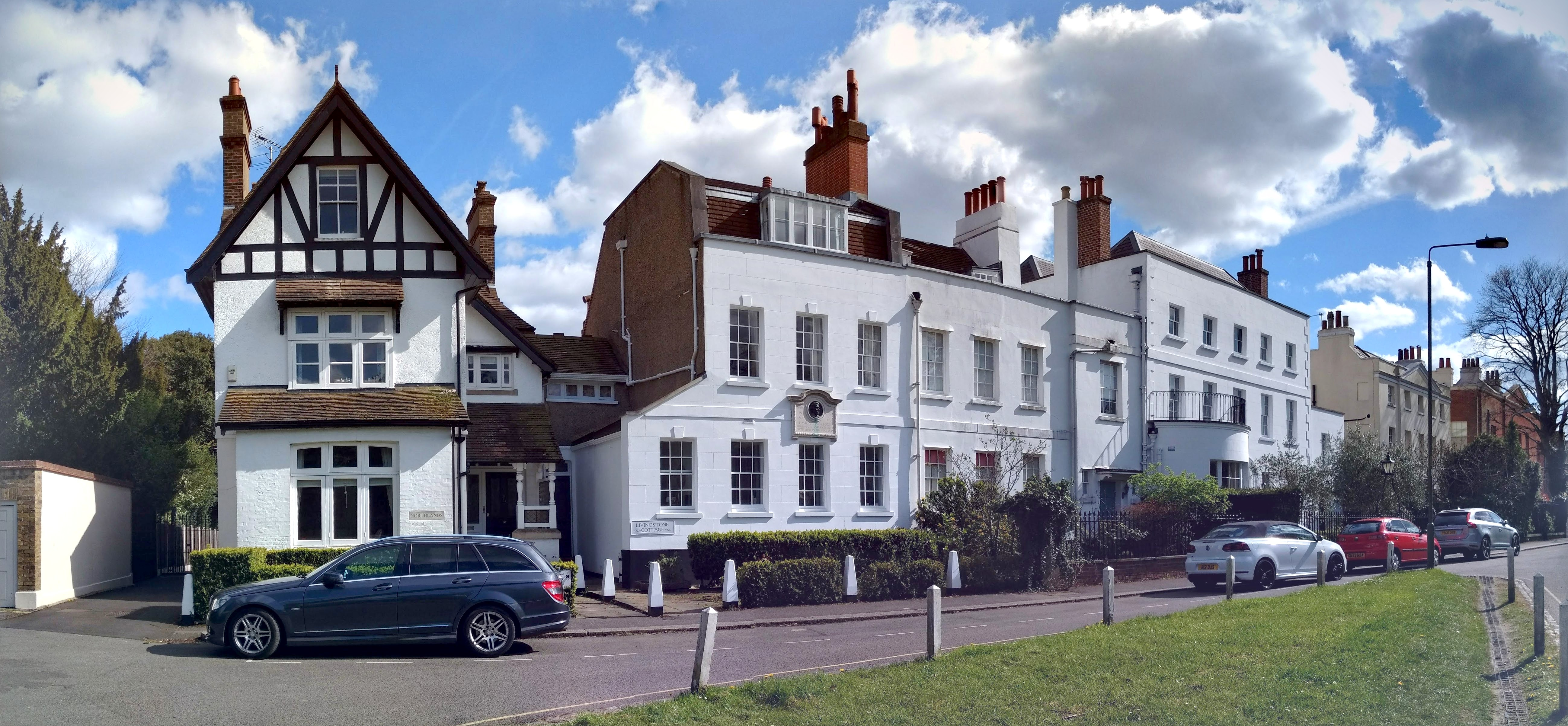 Livingstone Cottage panorama, Hadley Green Road